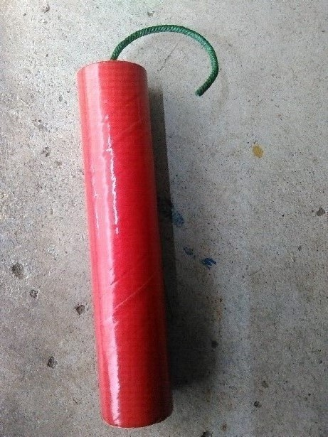 FULL STICK M-1000